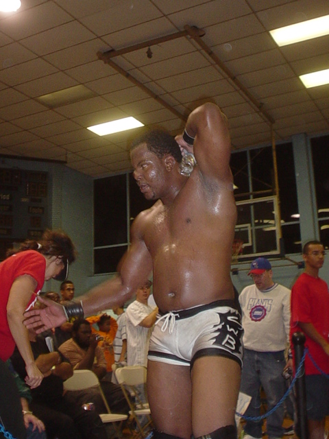 Professional wrestler Slyck Wagner Brown at Connecticut Championship Wrestling show on October 1, 2005.